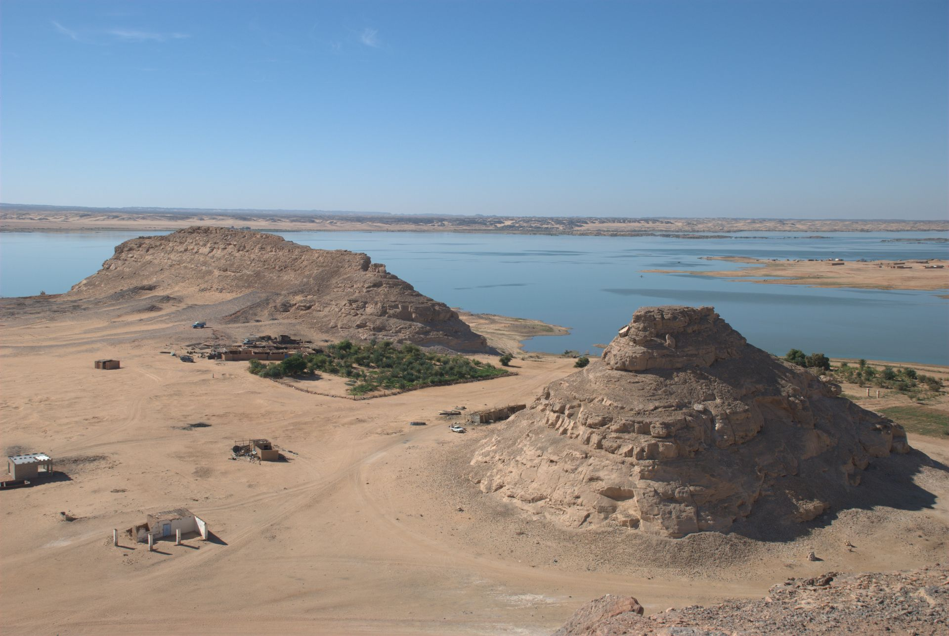 Nubian lake at Wadi Halfa, Sudan